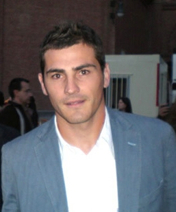 Spanish footballer Iker Casillas (image has been cropped)